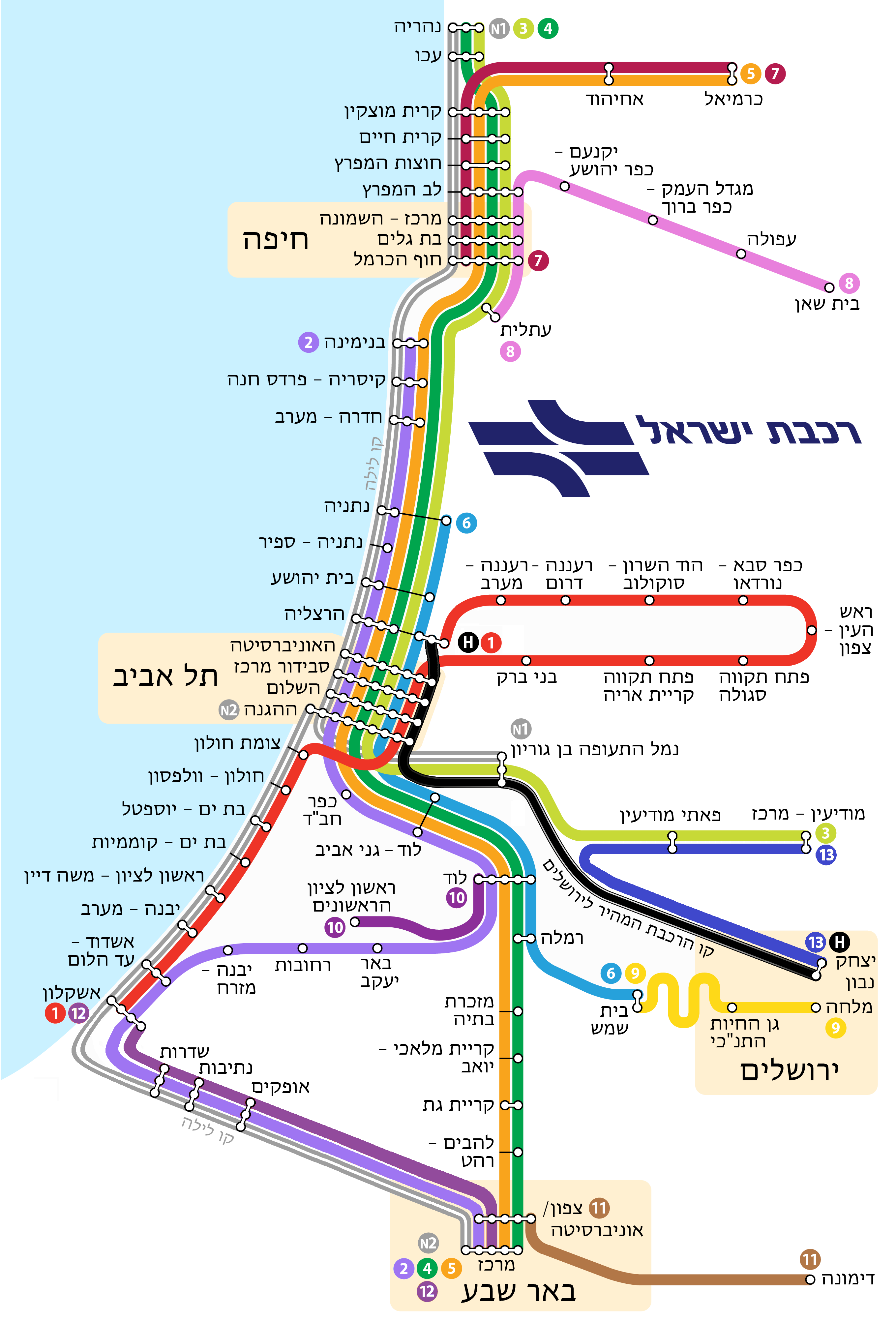 Railway Network of Israel